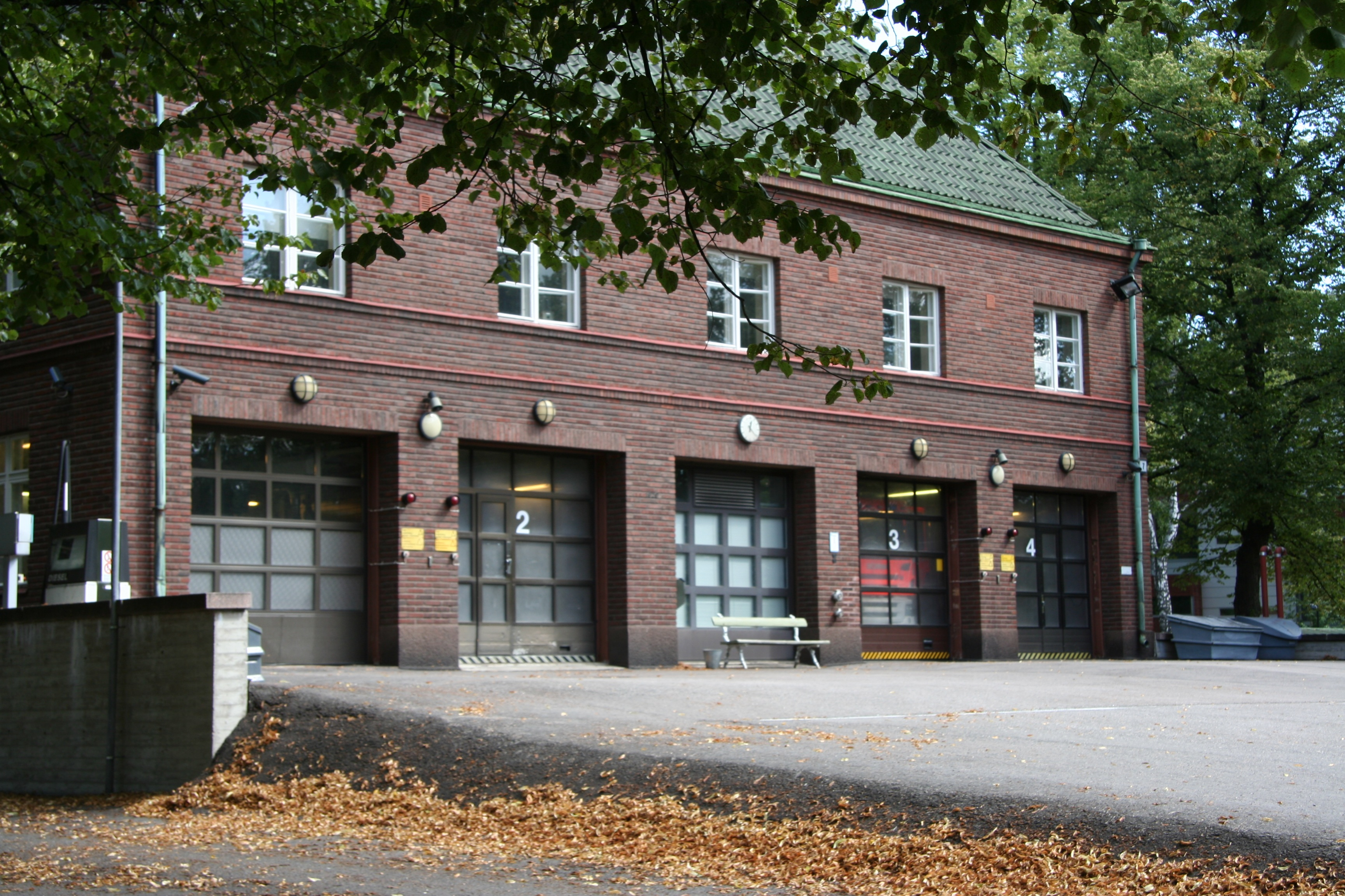 Fire station in Käpylä, Helsinki